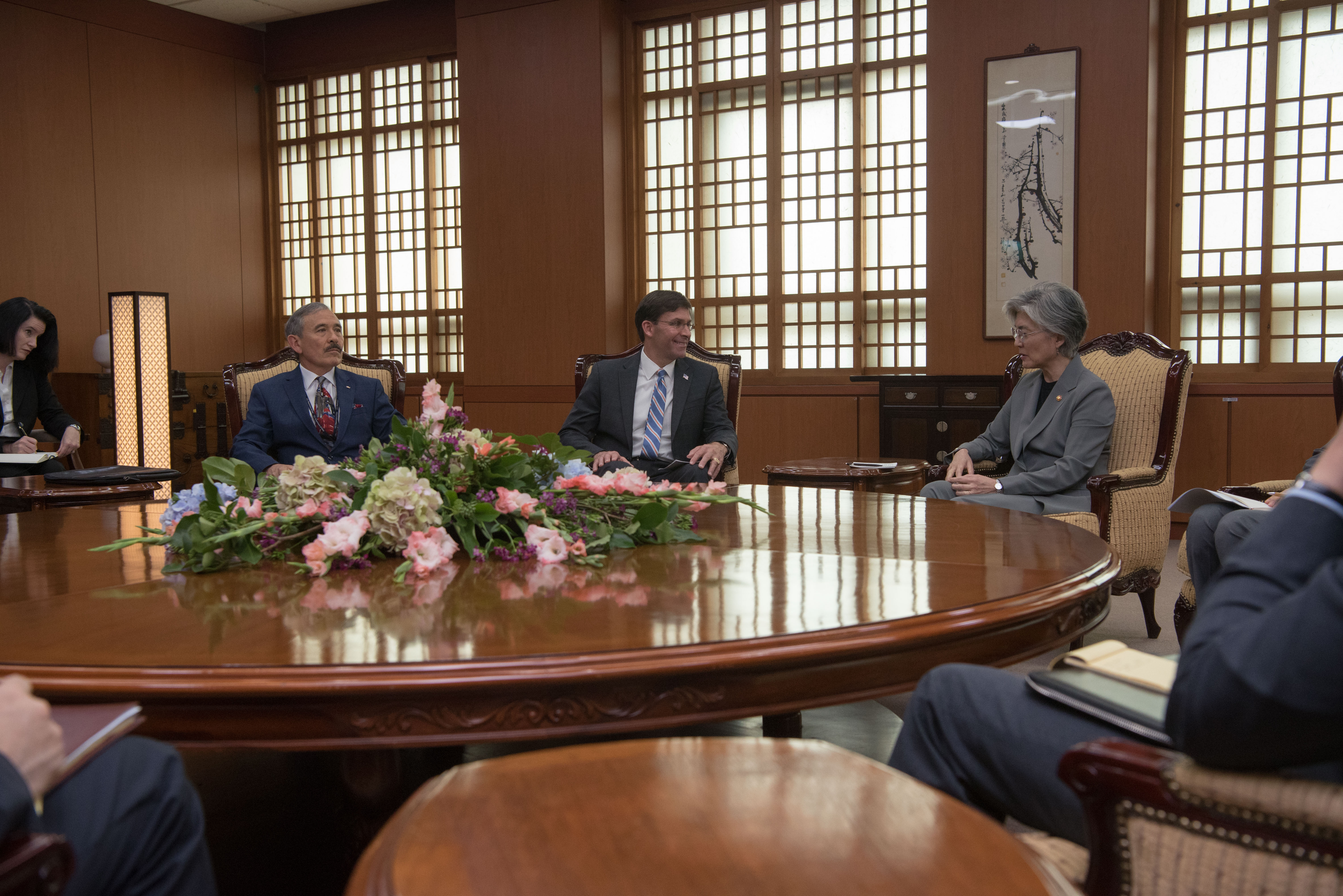 U.S. Secretary of Defense Dr. Mark T. Esper meets with Korean Minister of Foreign Affairs Kang Kyung-wha in Seoul, Republic of Korea, Aug. 9, 2019. (DoD photo by U.S. Army Sgt. Amber I. Smith)